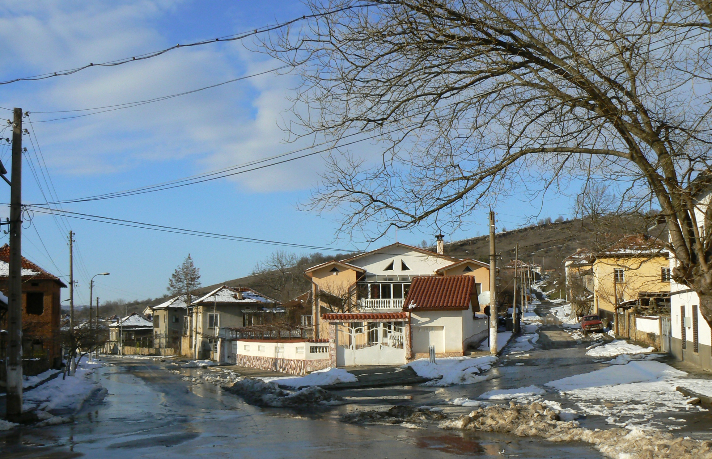 Houses in the centre of village Hubavene, Bulgaria